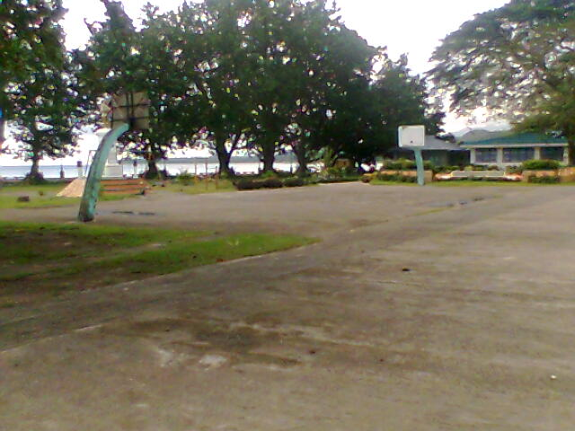 Macrohon Park and Plaza, as viewed from the angle of the Church.